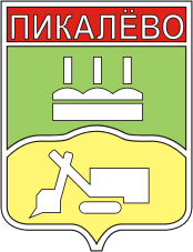 Pikalyovo (Leningrad oblast), coat of arms (1979)